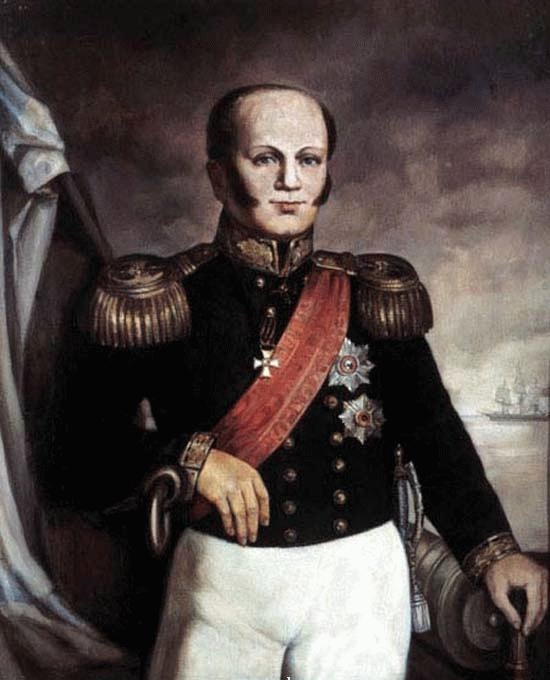 Dmitry Nikolaevich Senyavin (1763-1831) Russian Admiral